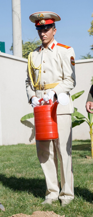 Russian Defense Minister Sergei Shoigu with the cadets of the Mastibek Tashmukhamedov Military Lyceum of the Ministry of Defense of Tajikistan.